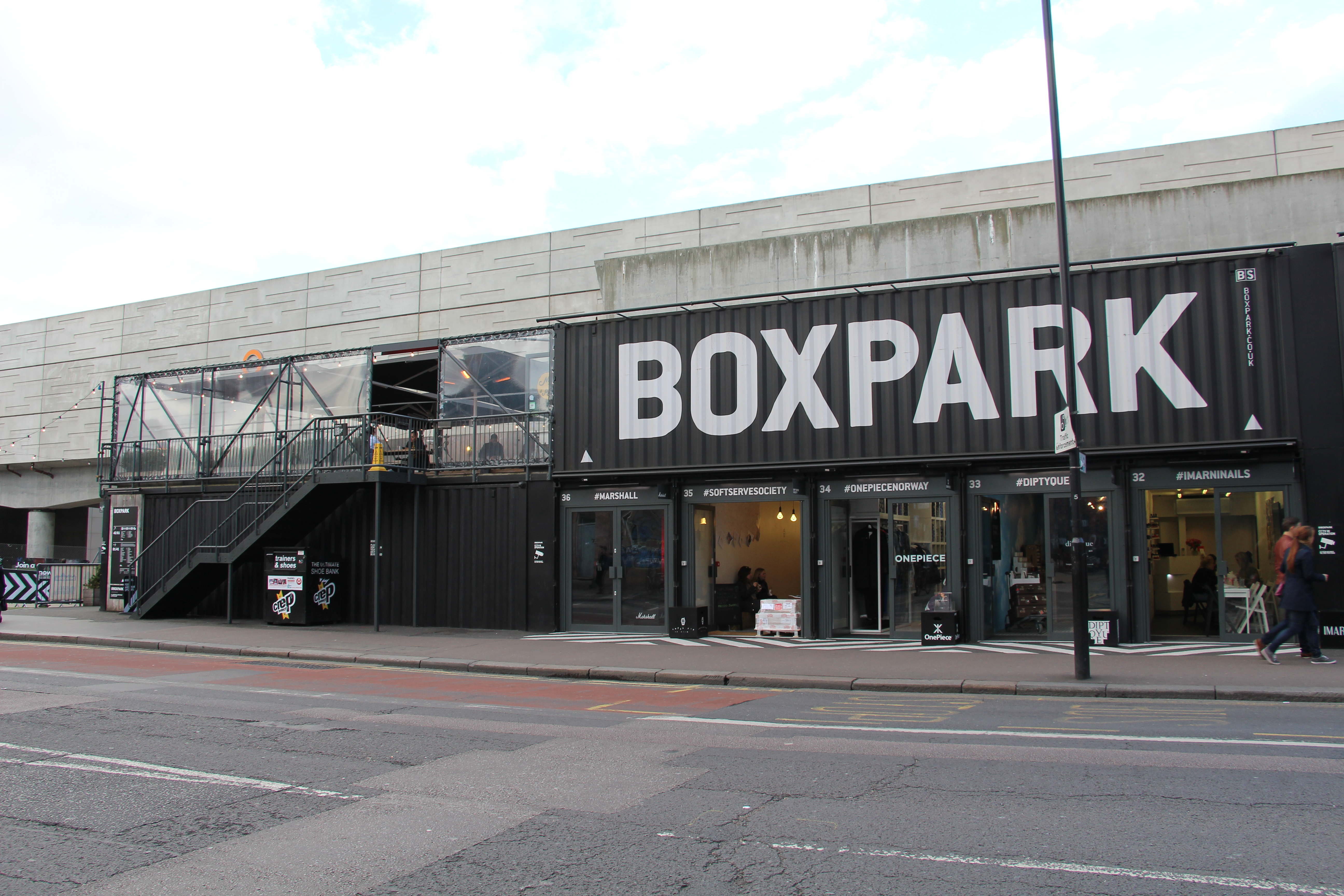 Bethnal Green Road London's first pop-up shopping mall made completely from shipping containers. Project: Roger Wade 2011.